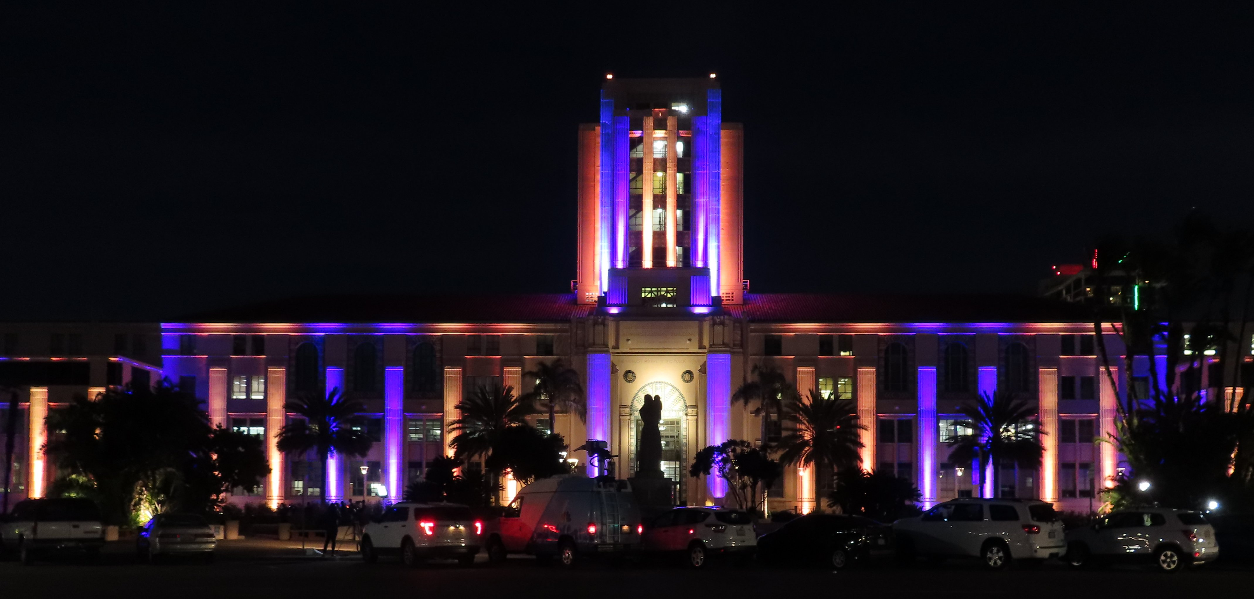 The San Diego Waterfront Area is a colourful promenade at night